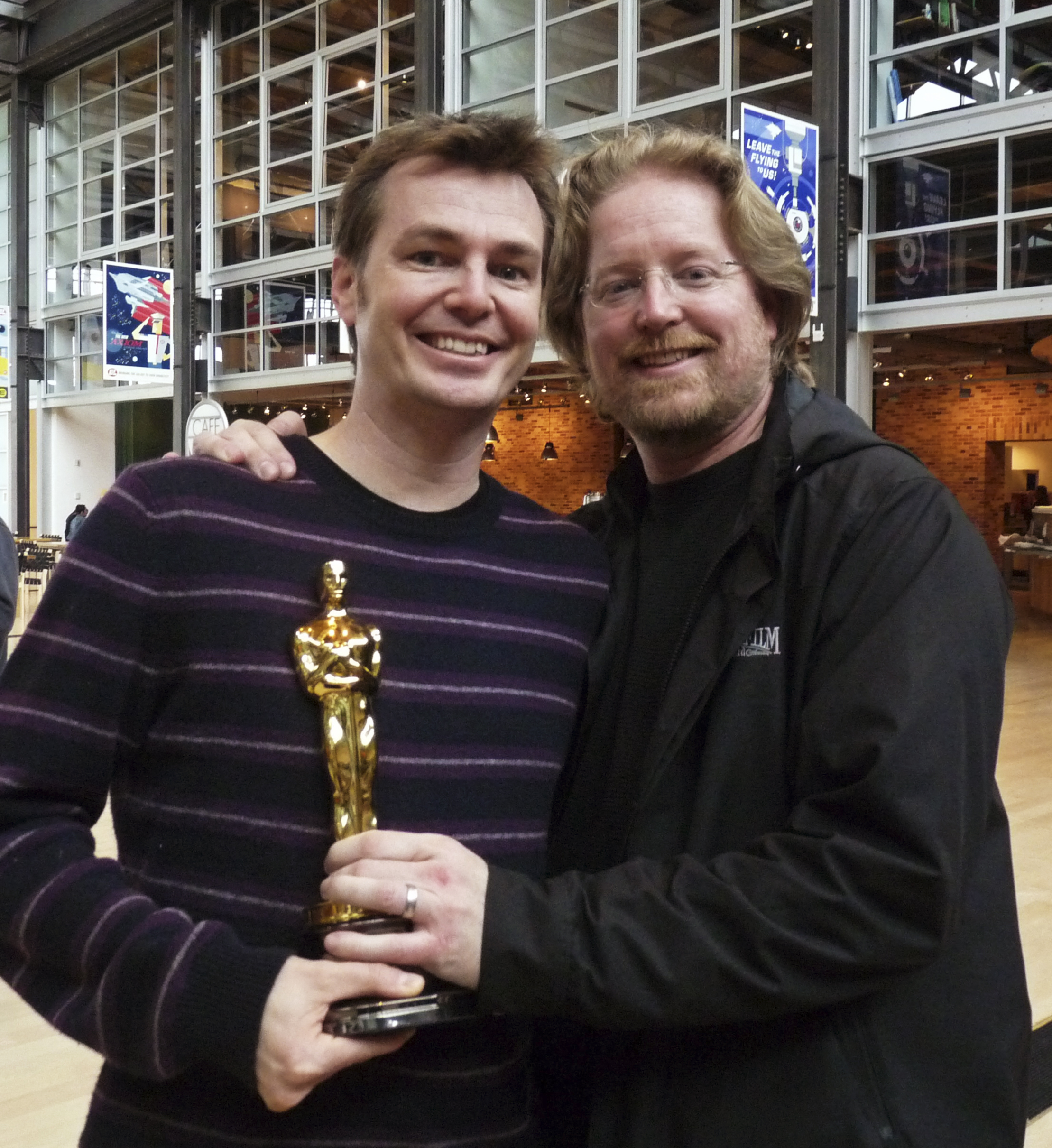 Andrew Stanton and Victor Navone holding an academy award